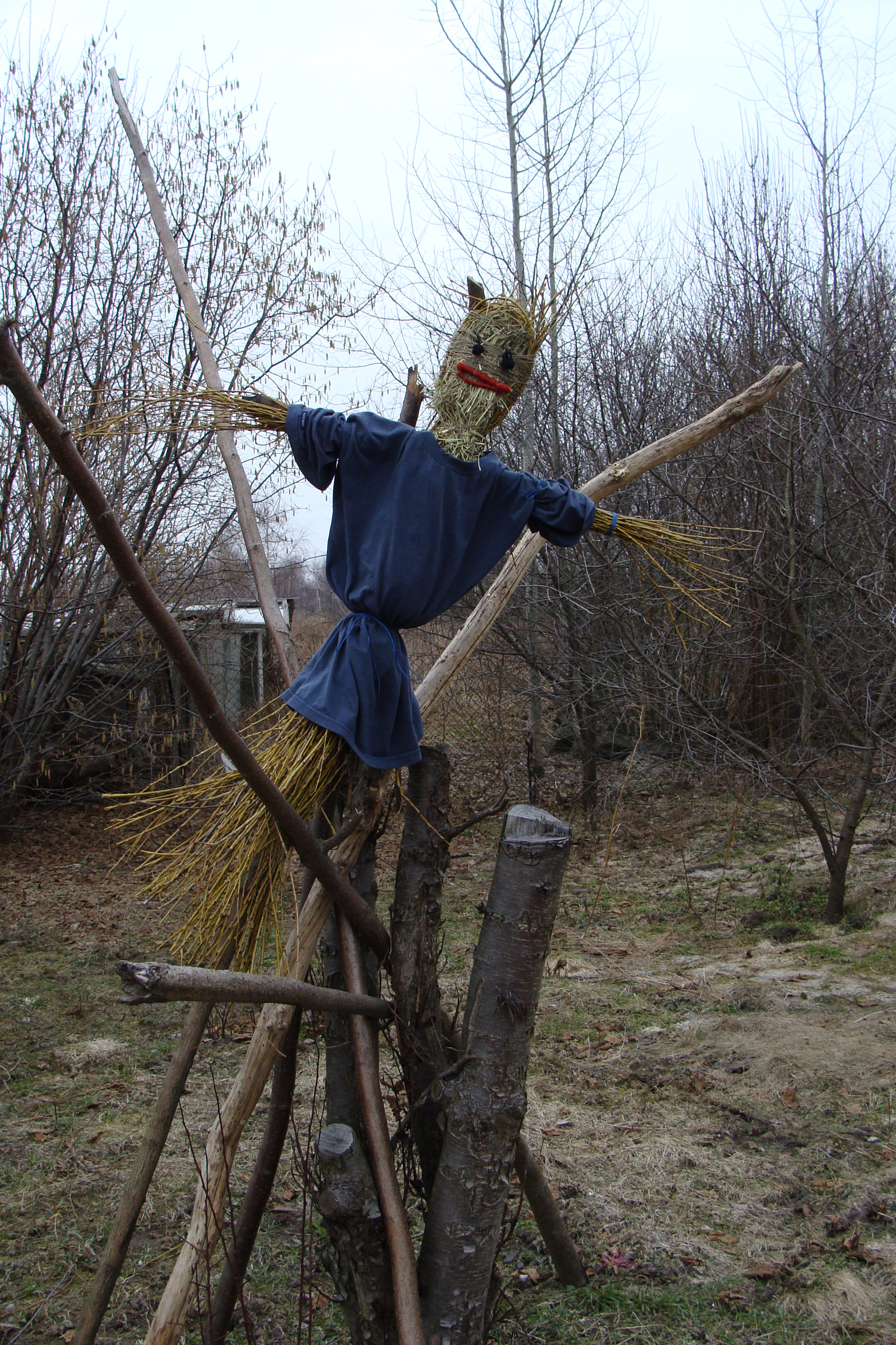 Morana - Jare Swieto, RKP 2010